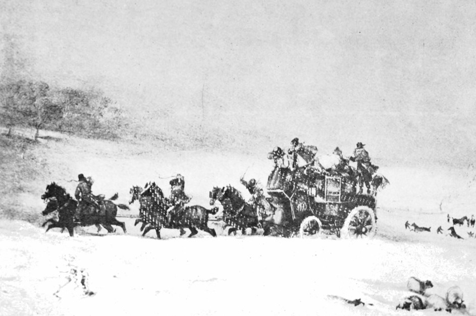 Exeter Telegraph in 1836 getting thro snow with post horses from an 1899 book by CHARLES G. HARPER